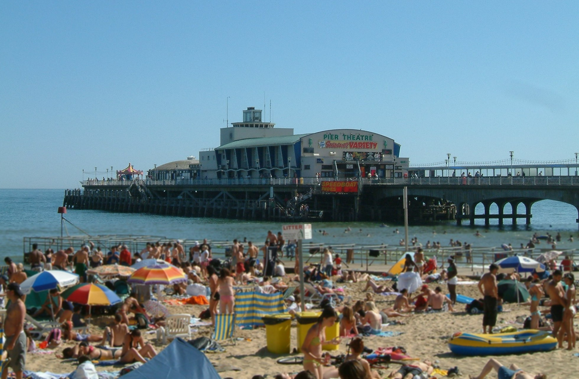 Bournemouth, England, United-Kingdom